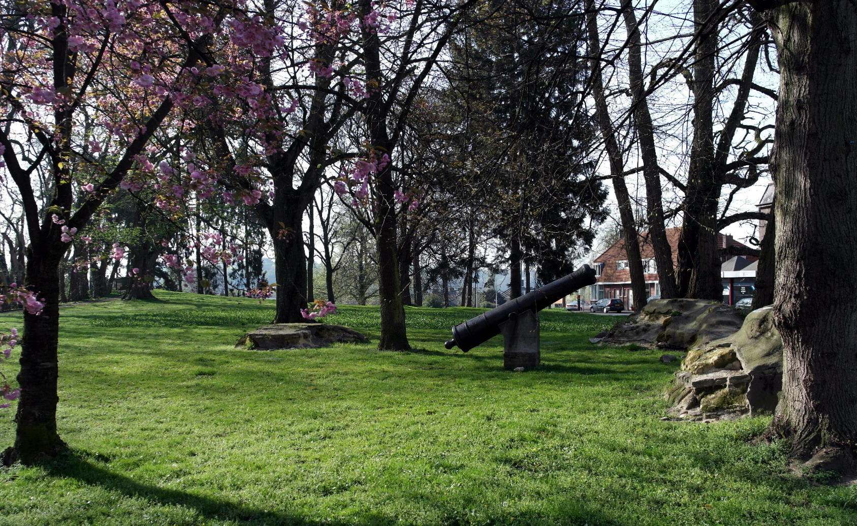 Maastricht, the Netherlands. View of Waldeckpark, the south-western part of Stadspark (City Park).